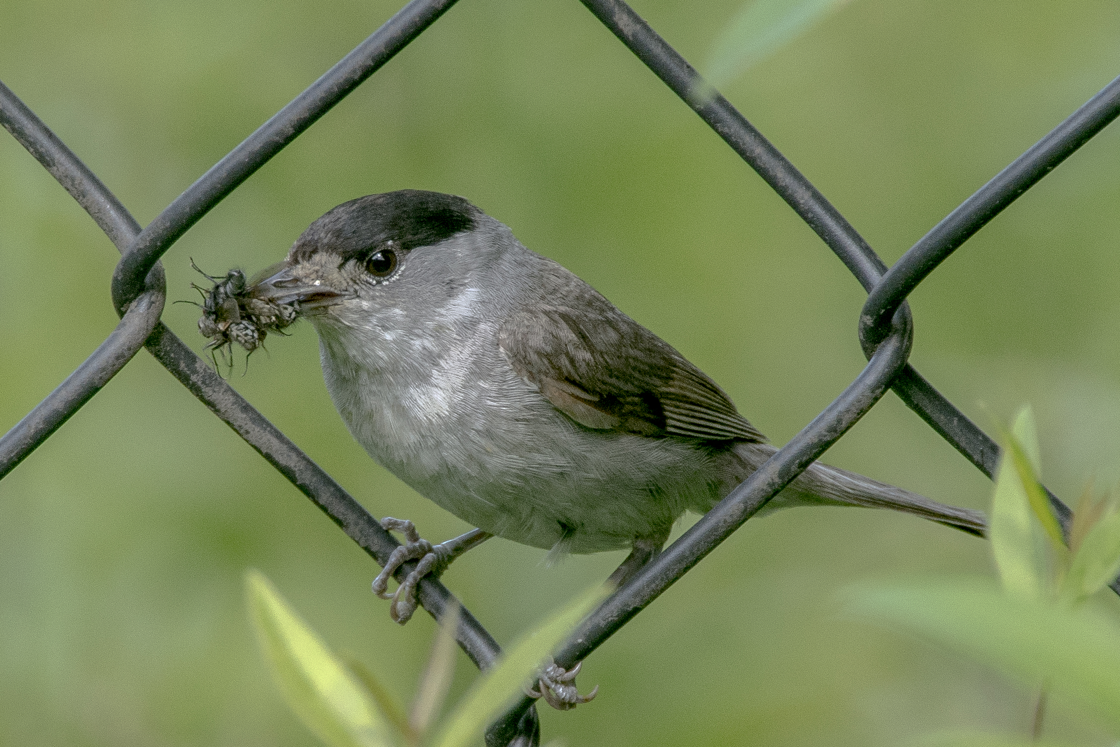 The Blackcap, Lodz (Poland)